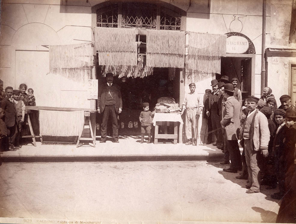 Giorgio Sommer (1834-1914), "Palermo. Macaroni maker". Catalogue number: 9129.